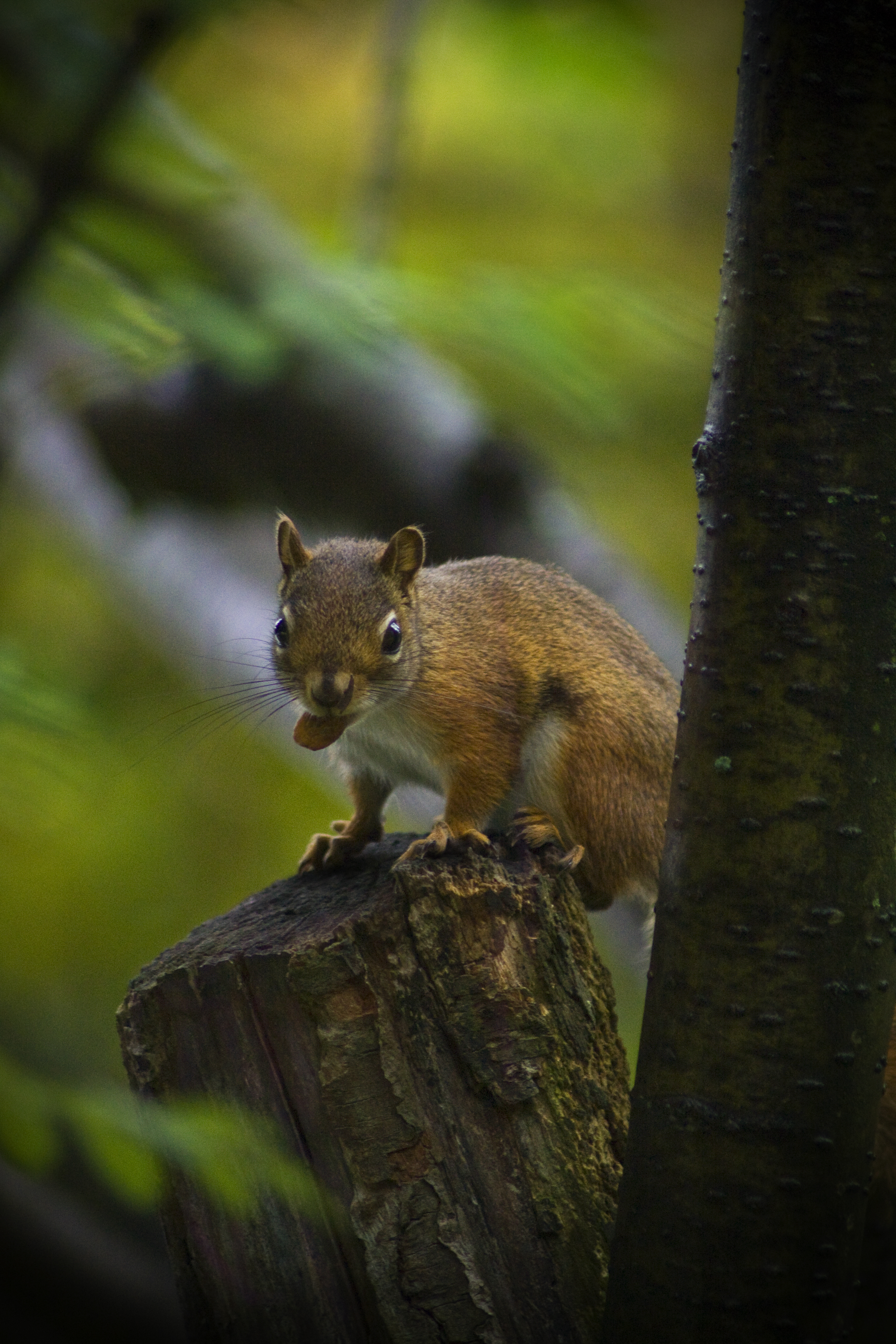 Tree squirrel.